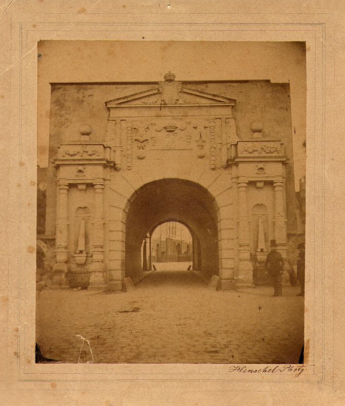 Vesterport (Western Gate). Matte albumin, 160 x 133 mm.